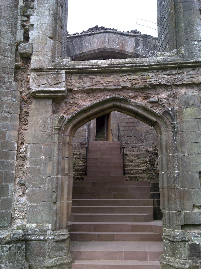 Raglan Castle, Monmouthshire. The recently restored Grand Staircase in the Fountain Court